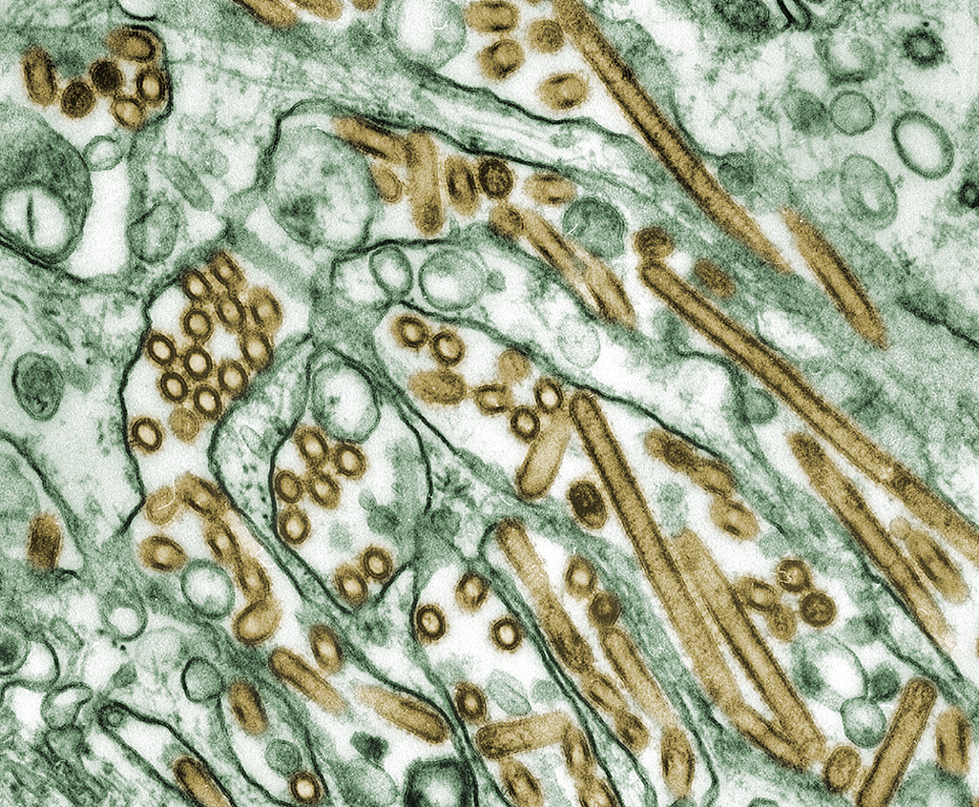 Colorized transmission electron micrograph of Avian influenza A H5N1 viruses (seen in gold) grown in MDCK cells (seen in green). Avian influenza A viruses do not usually infect humans; however, several instances of human infections and outbreaks have been reported since 1997. When such infections occur, public health authorities monitor these situations closely.